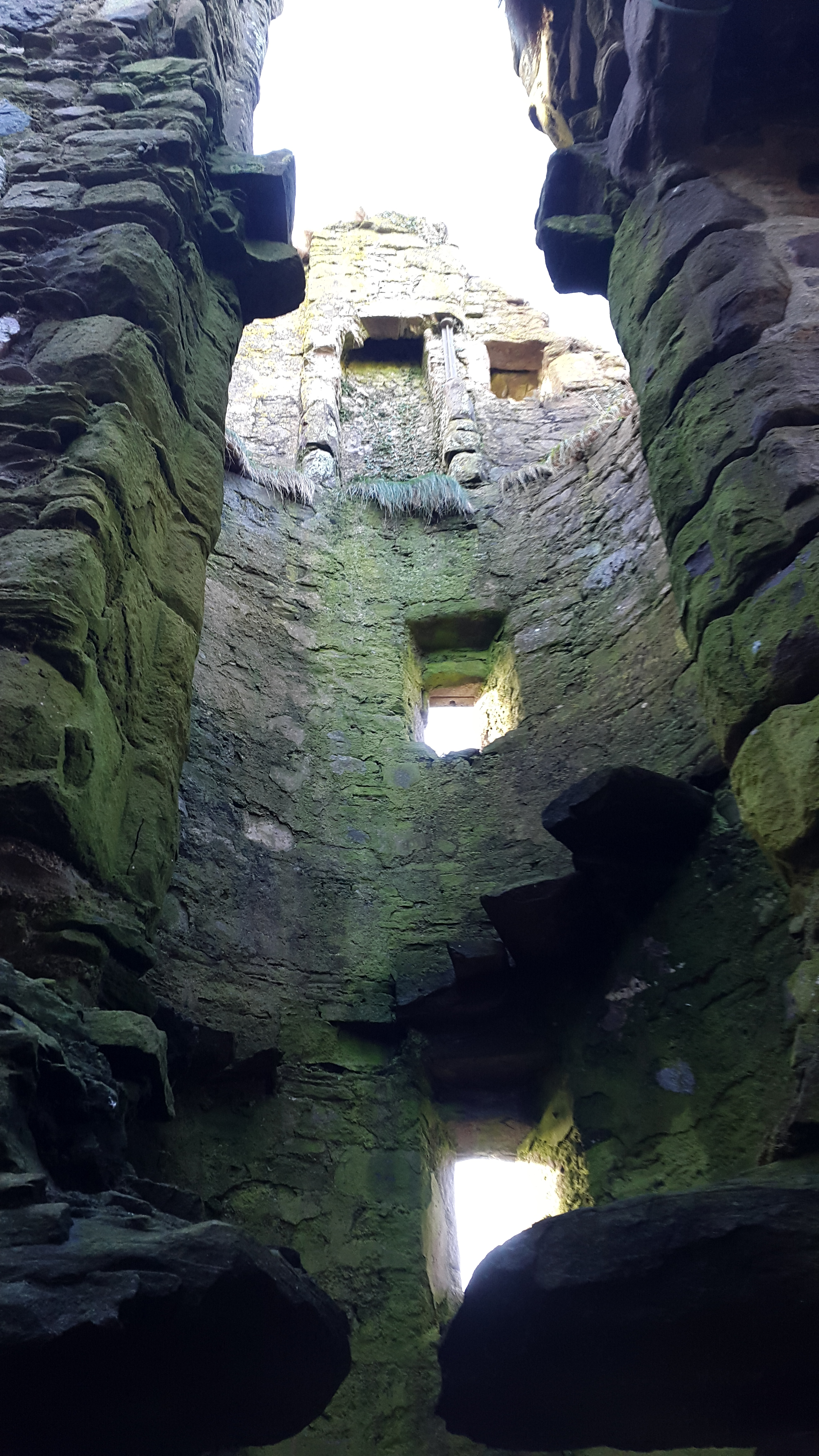 Inside Gylen Castle